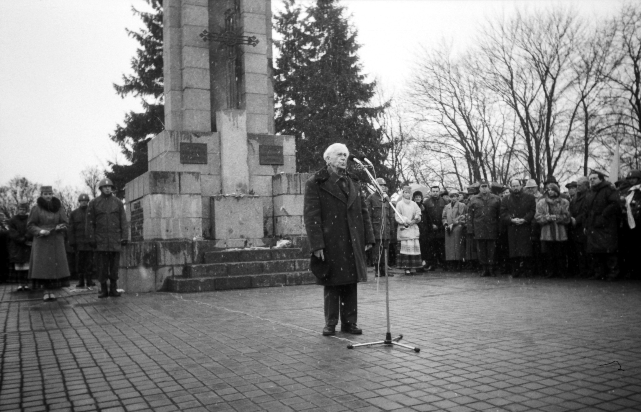 Reopening of monumet of Rebelion 1863 in Šiauliai, Lithuania. Kazys Tumkevičius